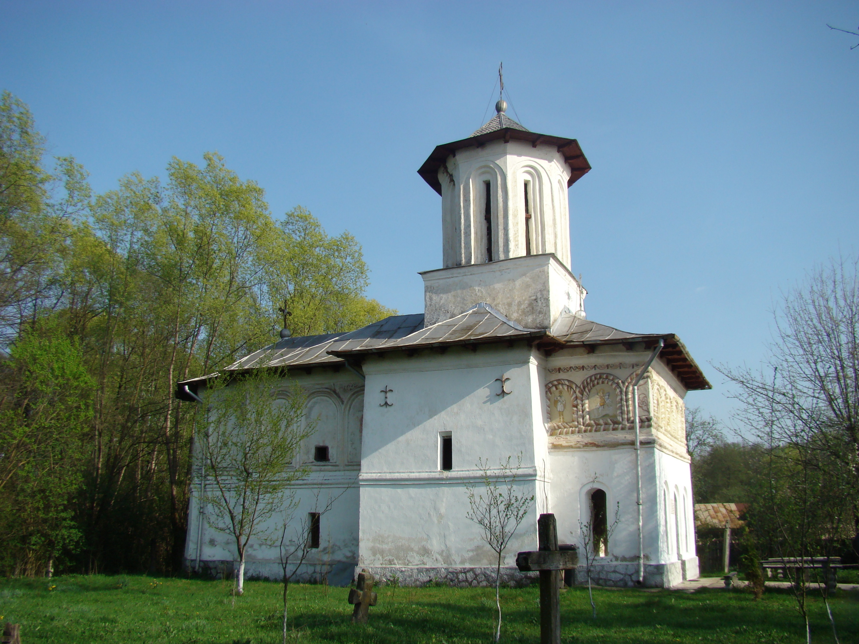 Saint Nicholas church in Brădiceni, Gorj county, Romania